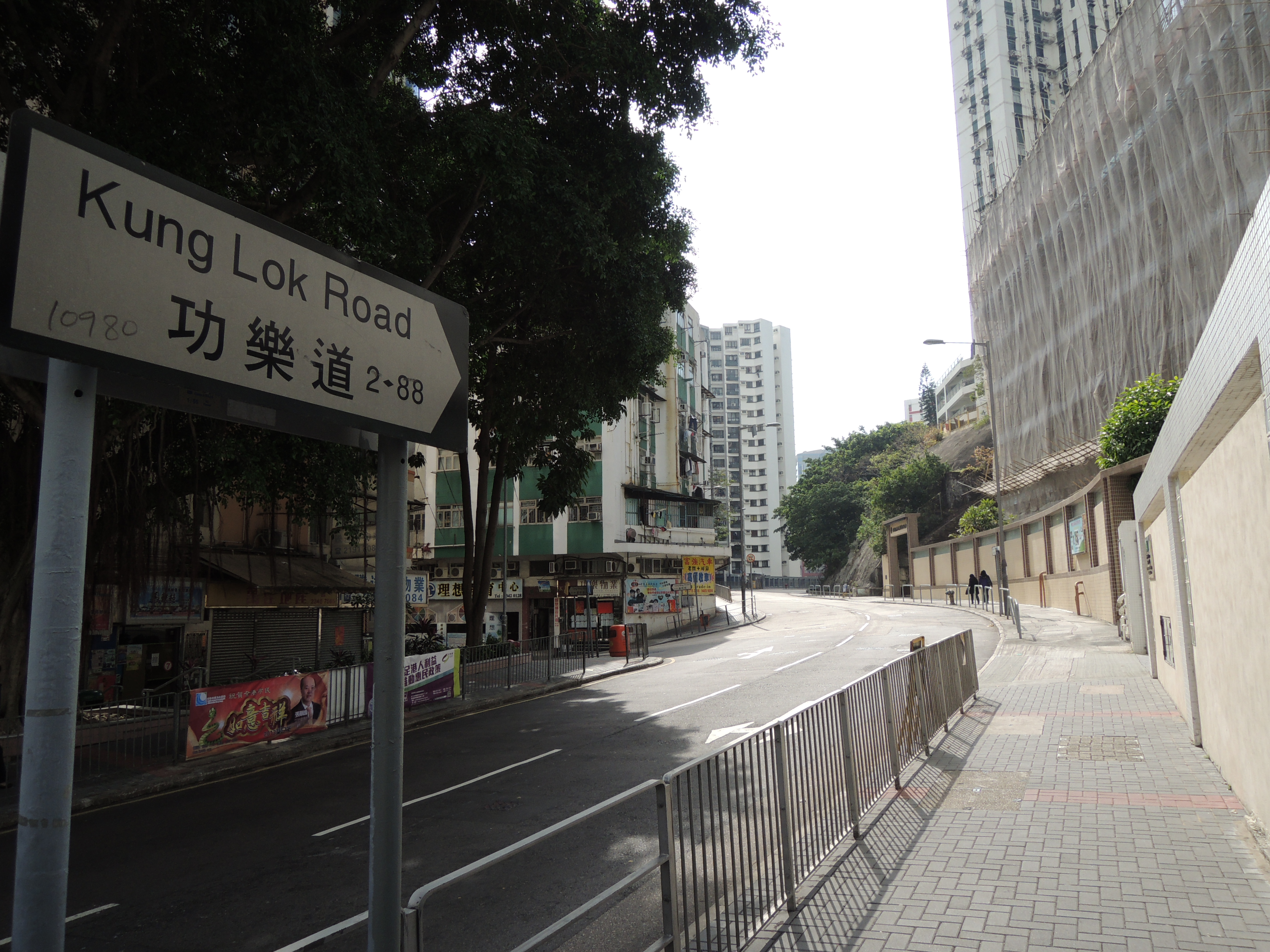 Kung Lok Road (Kwun Tong, Kowloon, Hong Kong) 中文（香港）: 功樂道 (香港九龍觀塘)